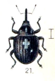 Craponius epilobii Payk. = Auleutes epilobii (Paykull, 1800), adult, dorsal view